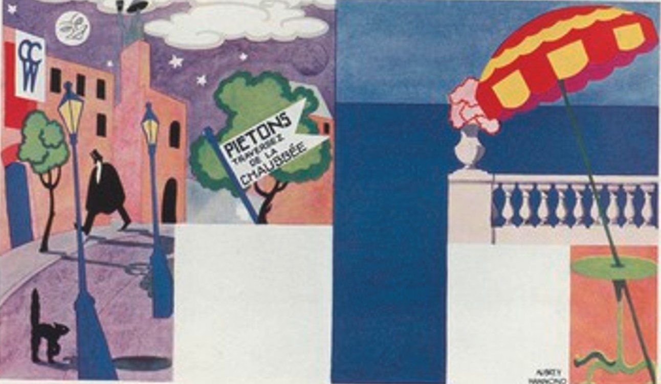 A reproduction of Aubrey Hammond's mural for the Canadian Club Tasting Rooms in London, featured in The Commercial Art Magazine, London, 1927.